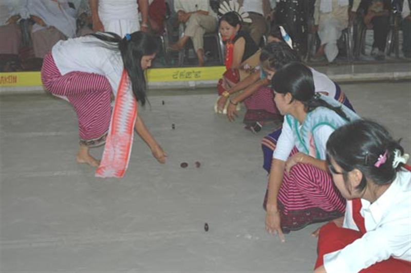 Kang game in progress